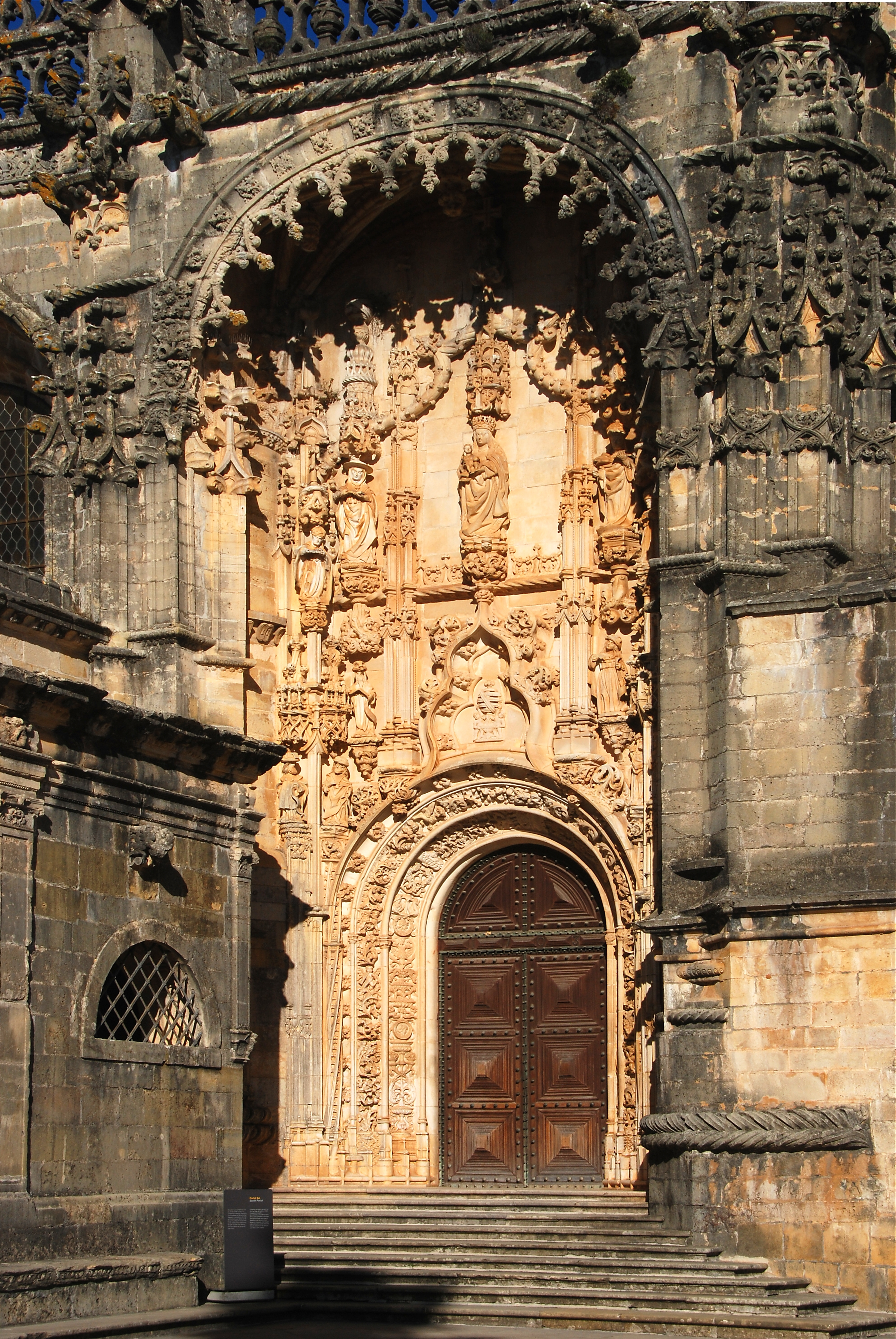 Church of the Convent of Christ. Manuelin entrance